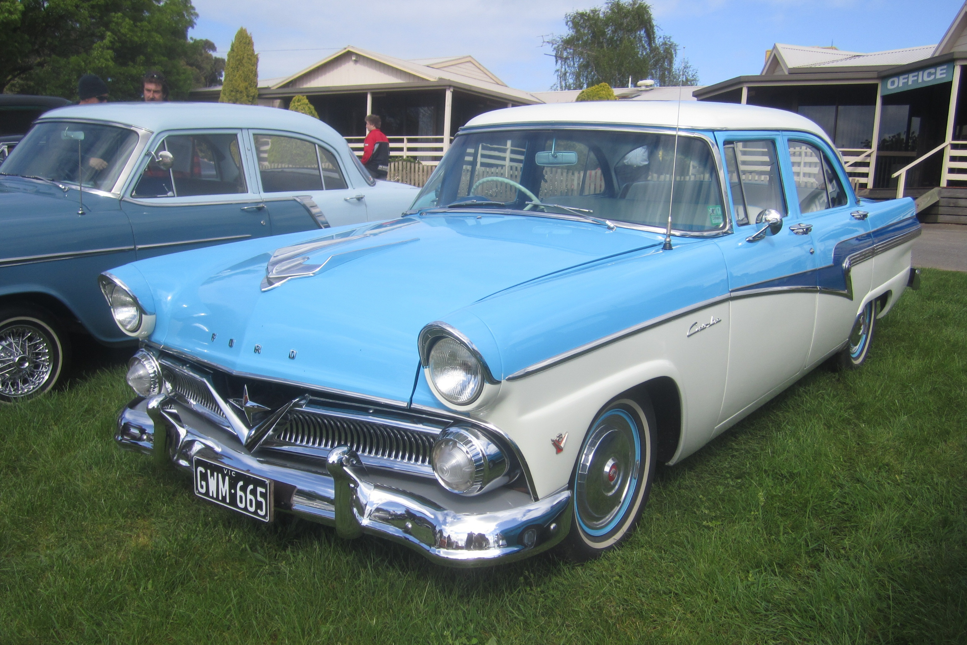 1958 Ford V8 Customline sedan as produced by Ford Australia from 1958 to 1959 alongside the Ford V8 Fordomatic sedan and Ford V8 Mainline coupe utility. The 1955-56 US Ford shape continued on through to 1959 in Australia. Engine; 272 cubic inch V8